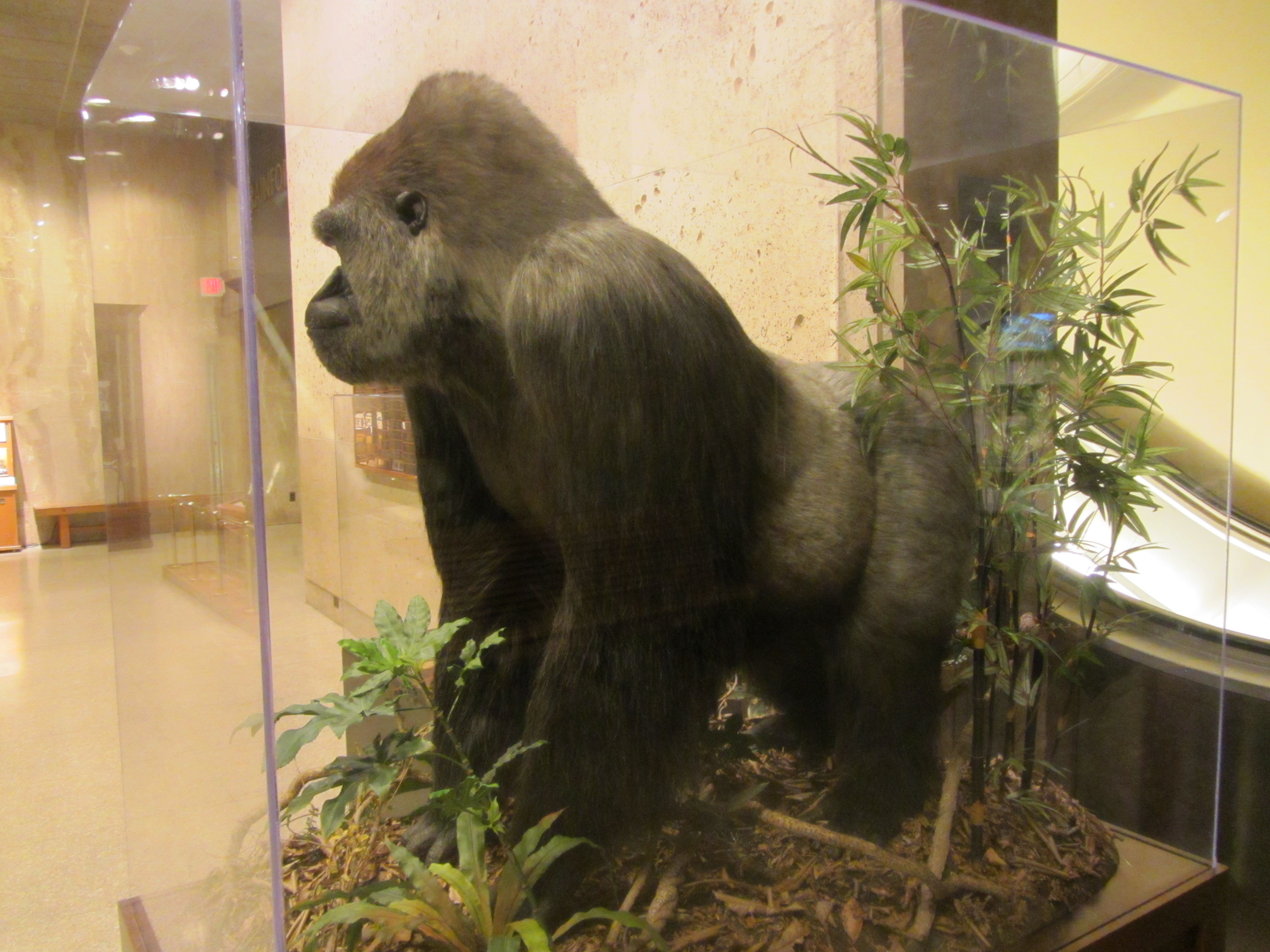 A re-creation model of the Milwaukee County Zoo's famous gorilla, Samson.